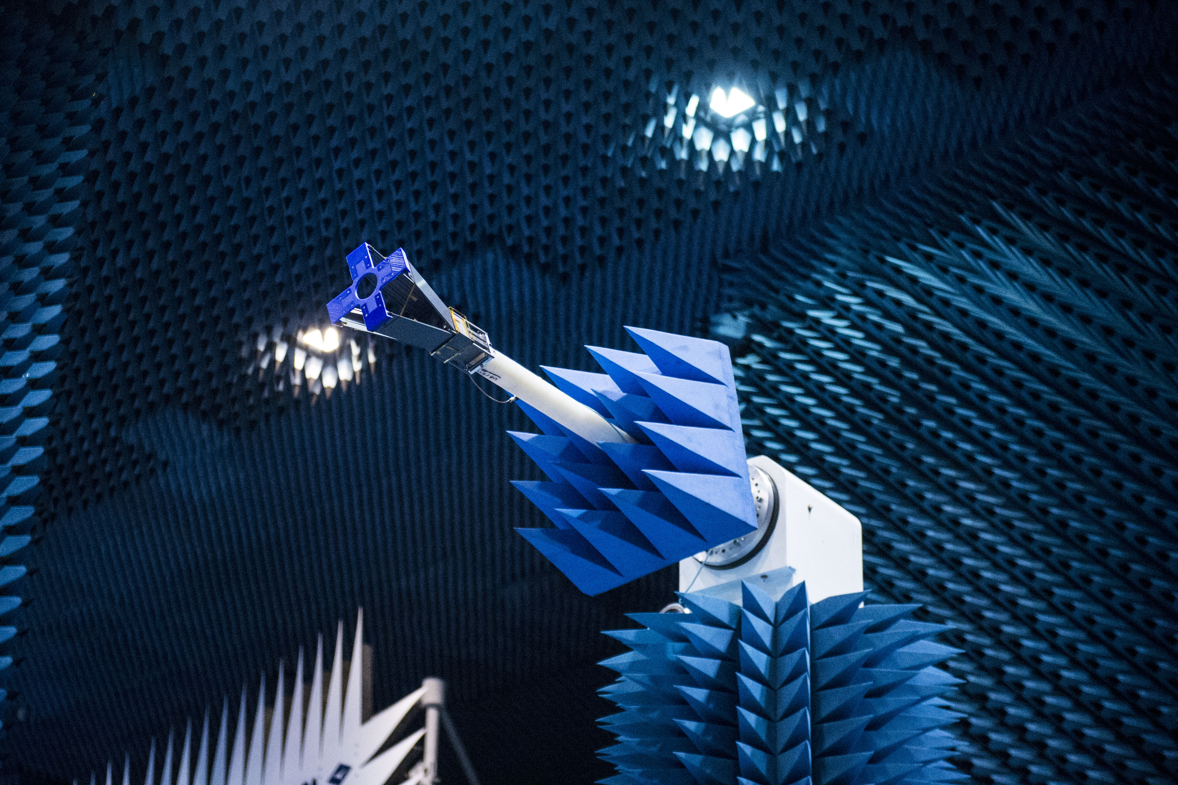 Qarman CubeSat in Hertz test chamber This full-size prototype of part of the first CubeSat designed for atmospheric reentry is dwarfed by the cavernous surroundings of ESA’s Hertz radio-testing chamber. CubeSats are low-cost nanosatellites based around standard 10 cm units and typically end their spaceflights burning up in the atmosphere as their orbits gradually decay. But the three-unit Qarman (QubeSat for Aerothermodynamic Research and Measurements on Ablation) is designed with this fiery fate in mind. Designed for ESA by Belgium’s Von Karman Institute, Qarman will use internal temperature, pressure and brightness sensors to gather precious data on the extreme conditions of reentry as its leading edges are enveloped in scorching plasma. “This CubeSat will return its results to experimenters using the Iridium commercial comsat network,” explains Roger Walker, coordinating ESA’s technology CubeSats. “We have come to Hertz to test the hindmost element of the satellite, intended to do just that. We need to ensure that the silicon carbide panels adjacent to Qarman’s antennas will not interfere with its transmission to any Iridium satellites within view.” Qarman’s blunt-nosed front contains most of its sensors, protected by a cork-based heatshield. The CubeSat is expected to survive its reentry, although not its subsequent fall to Earth – making it imperative that its results make it back. ESA’s Hertz chamber, in its ESTEC technical centre in the Netherlands, is short for Hybrid European RF antenna Test Zone. The isolated metal-walled chamber, lined with pyramid-shaped radio-absorbing foam to reproduce the endless reaches of space, offers versatile ways of measuring a subject’s radio-frequency performance. Qarman is planned to be launched from the International Space Station during 2016 as part of the European Commission-backed QB50 flight.